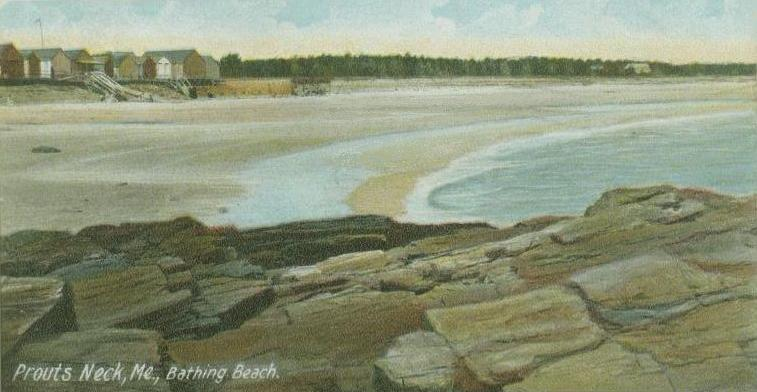 Bathing Beach, Prouts Neck, ME; from a 1905 postcard.